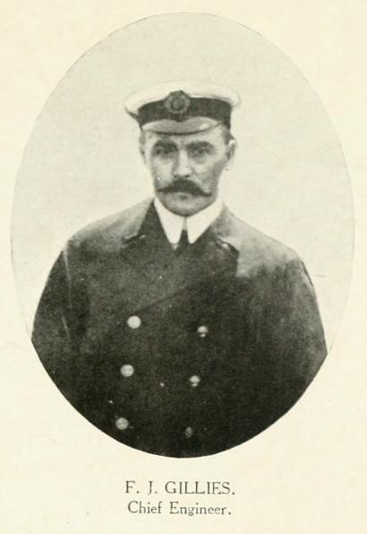 FI Gillies - "Officers of the Aurora", from With the "Aurora" in the Antarctic, 1911-1914 (1919).